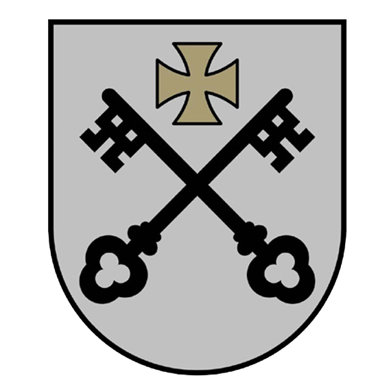 Lesser version of the coat of arms of Riga.